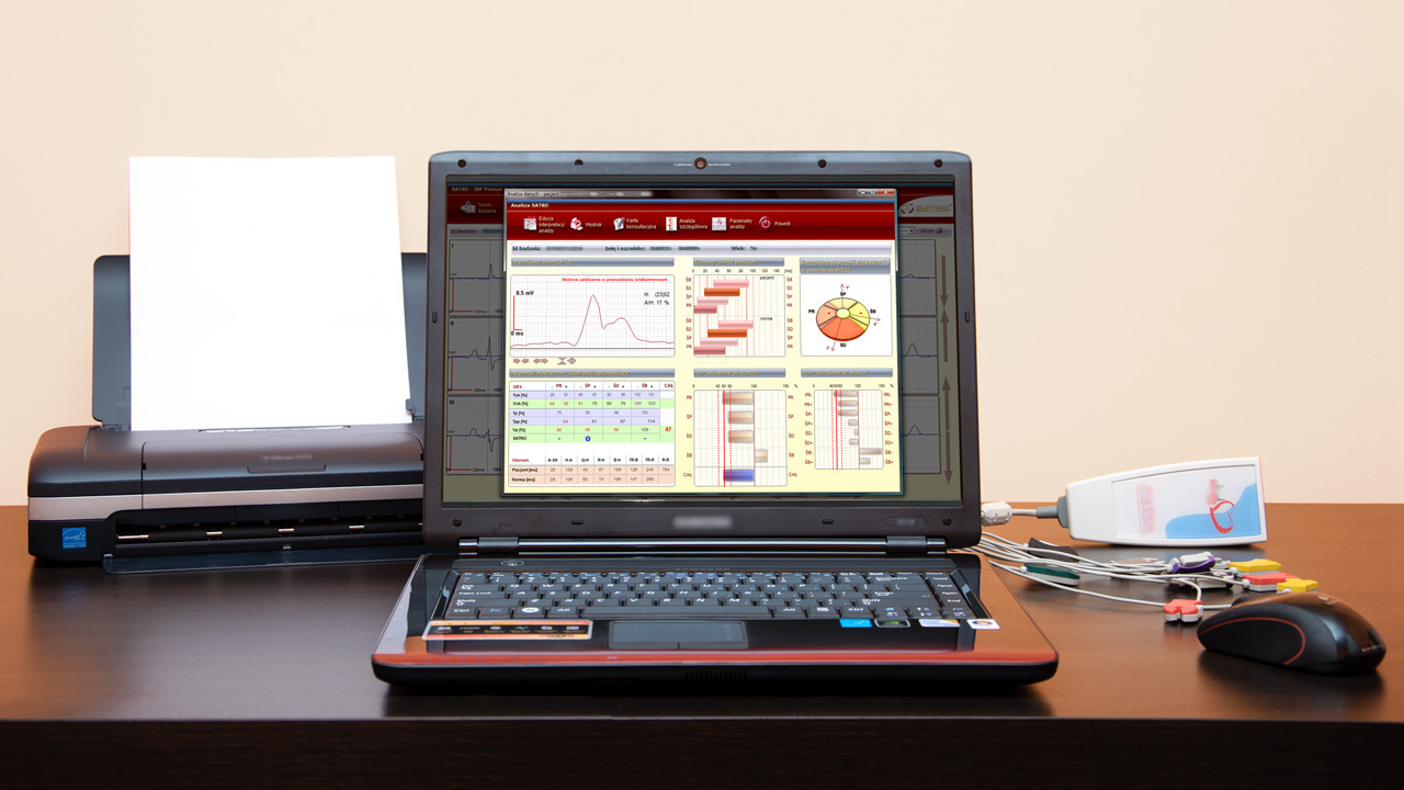 A complete system for the measurement using the SATRO-ECG method